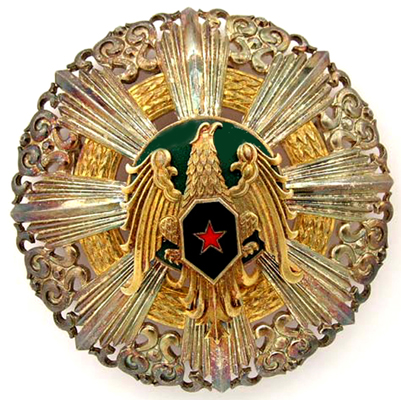 Star of Order of Military Honour (Syria)